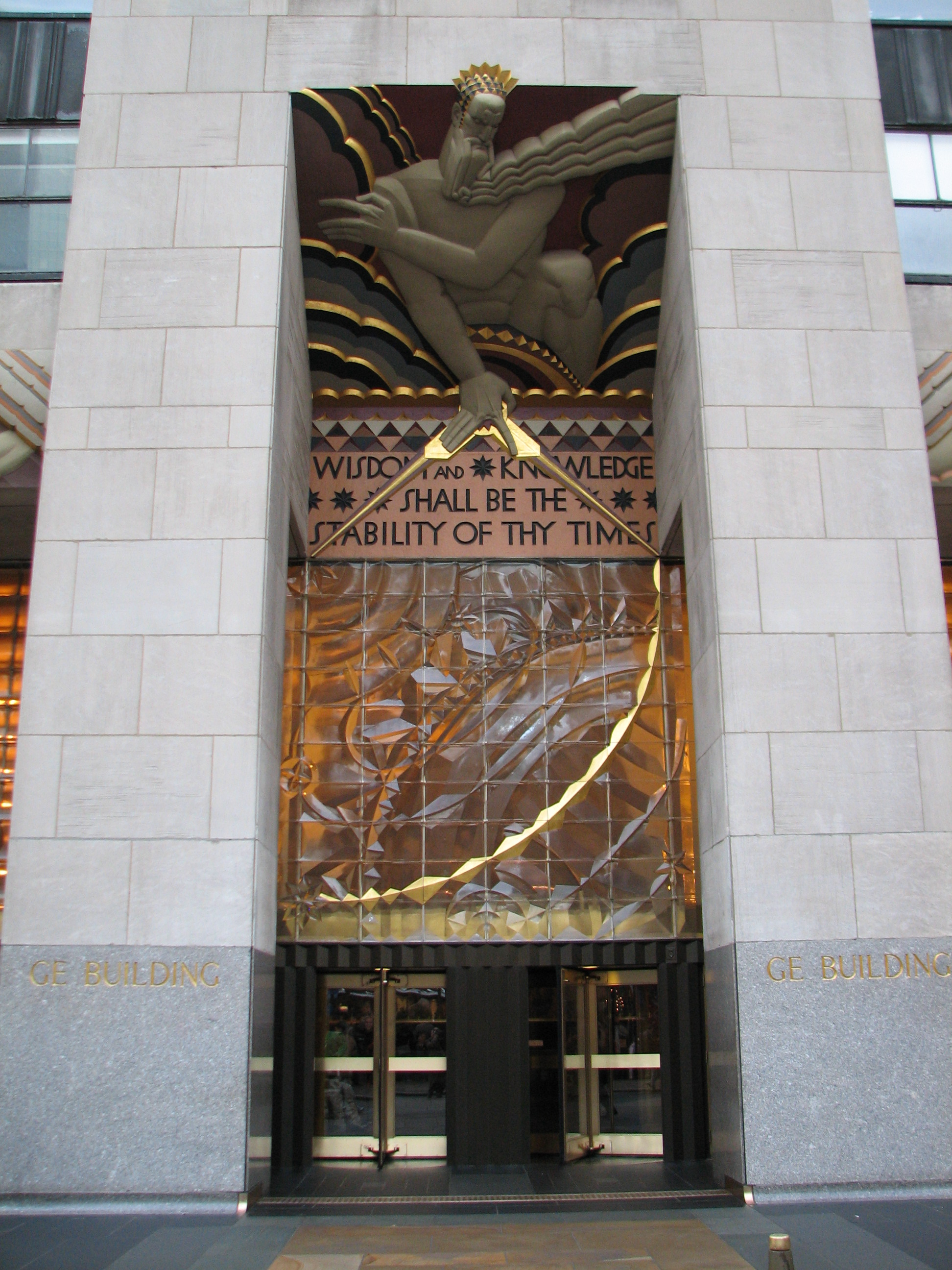 The front entrance of the GE Building in New York City, partly based on William Blake's "Ancient of Days".